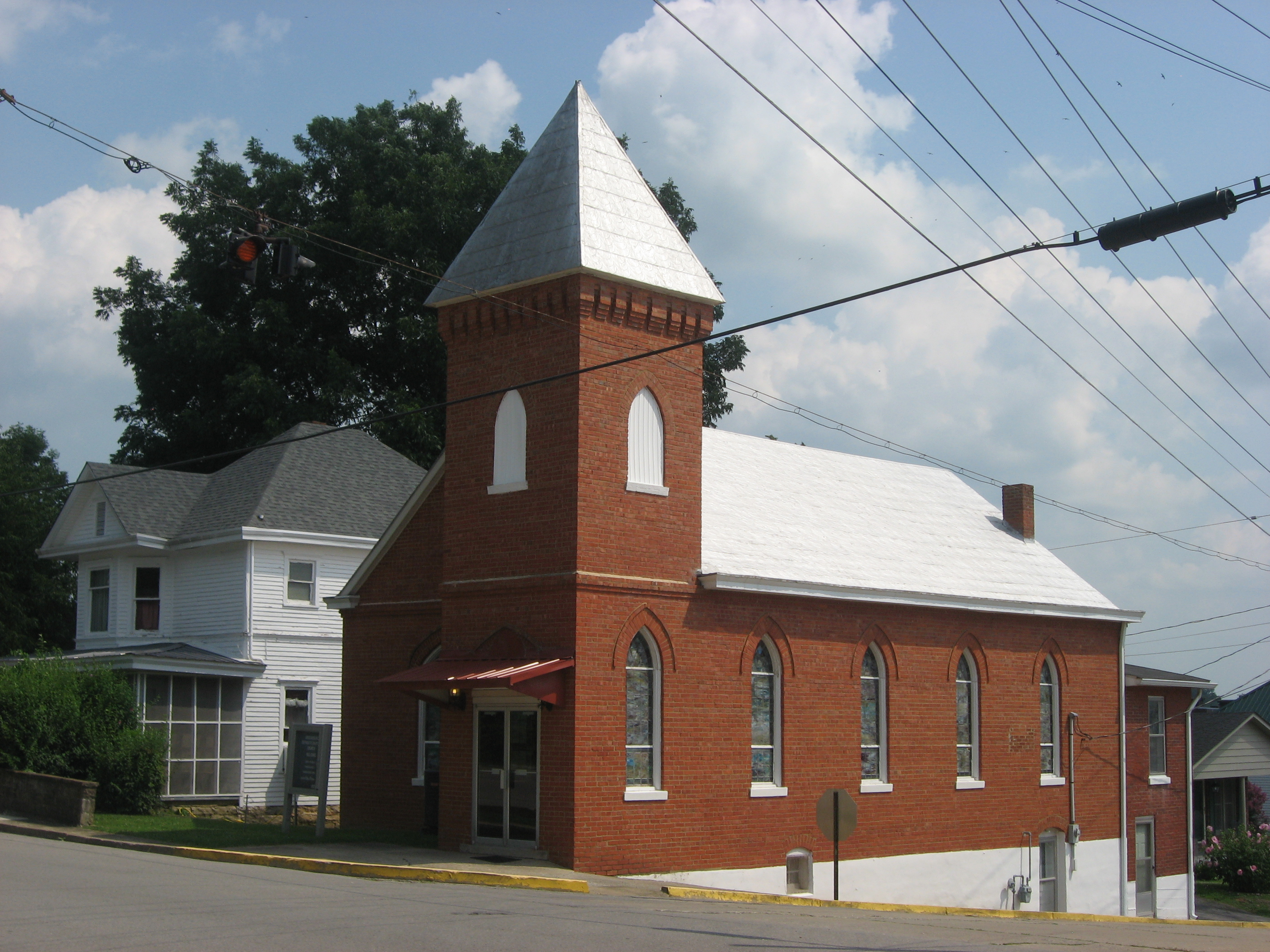 Front and western side of the Greensburg Cumberland Presbyterian Church (now the Greensburg Separate Baptist Church), located on the southeastern corner of the junction of Hodgenville Avenue and First Street at 429 Campbellsville Road in Greensburg, Kentucky, United States. Built in 1876, it is listed on the National Register of Historic Places.